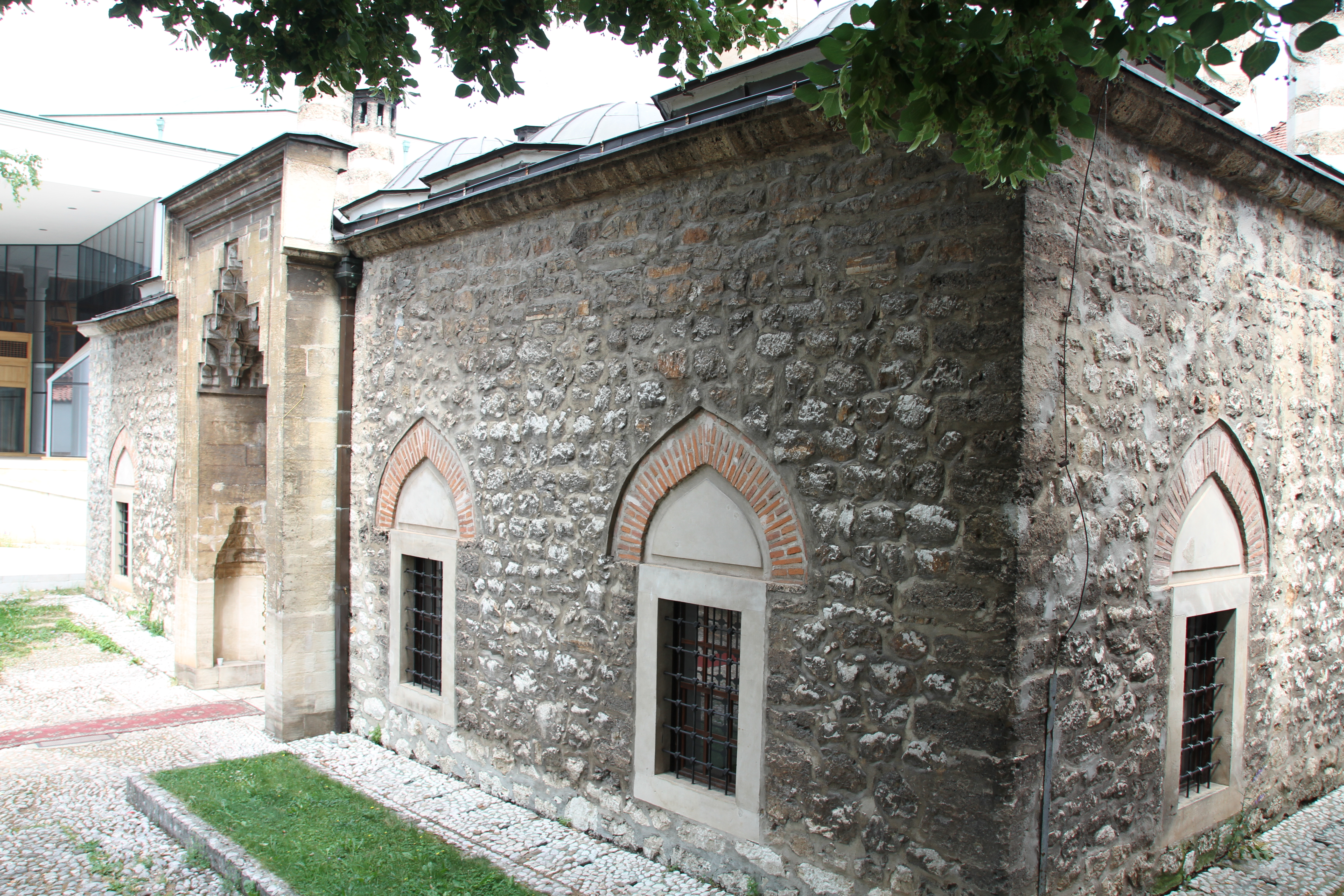 Image of the moslem (madrasa) school of Gazi Husrev Bey, in the old part of Sarajevo. Bosnia & Hercegovina.